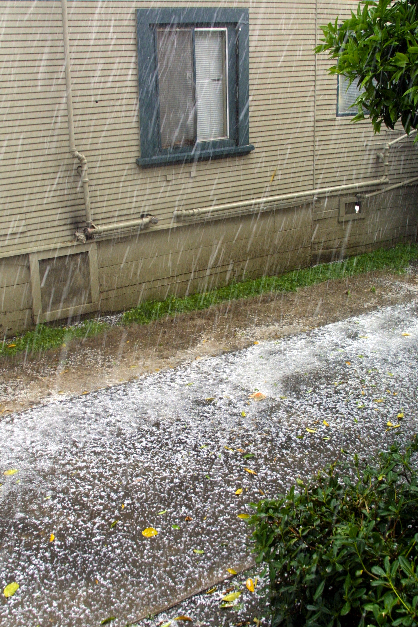 Hail storm, May 9, 2005 2 of 6IMG_0008.JPG